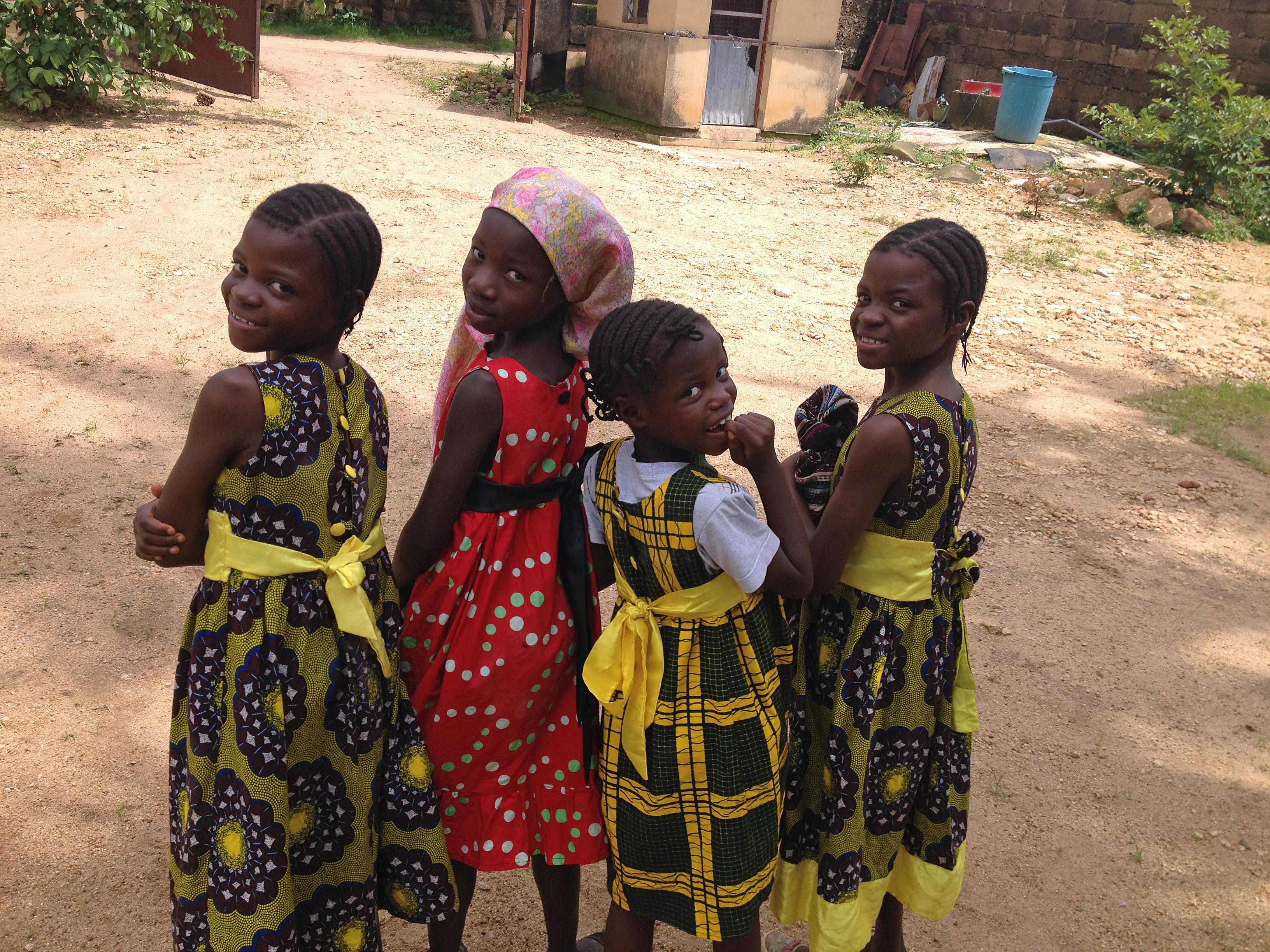 After Sunday Mass This is an image of Cultural Fashion or Adornment from Nigeria